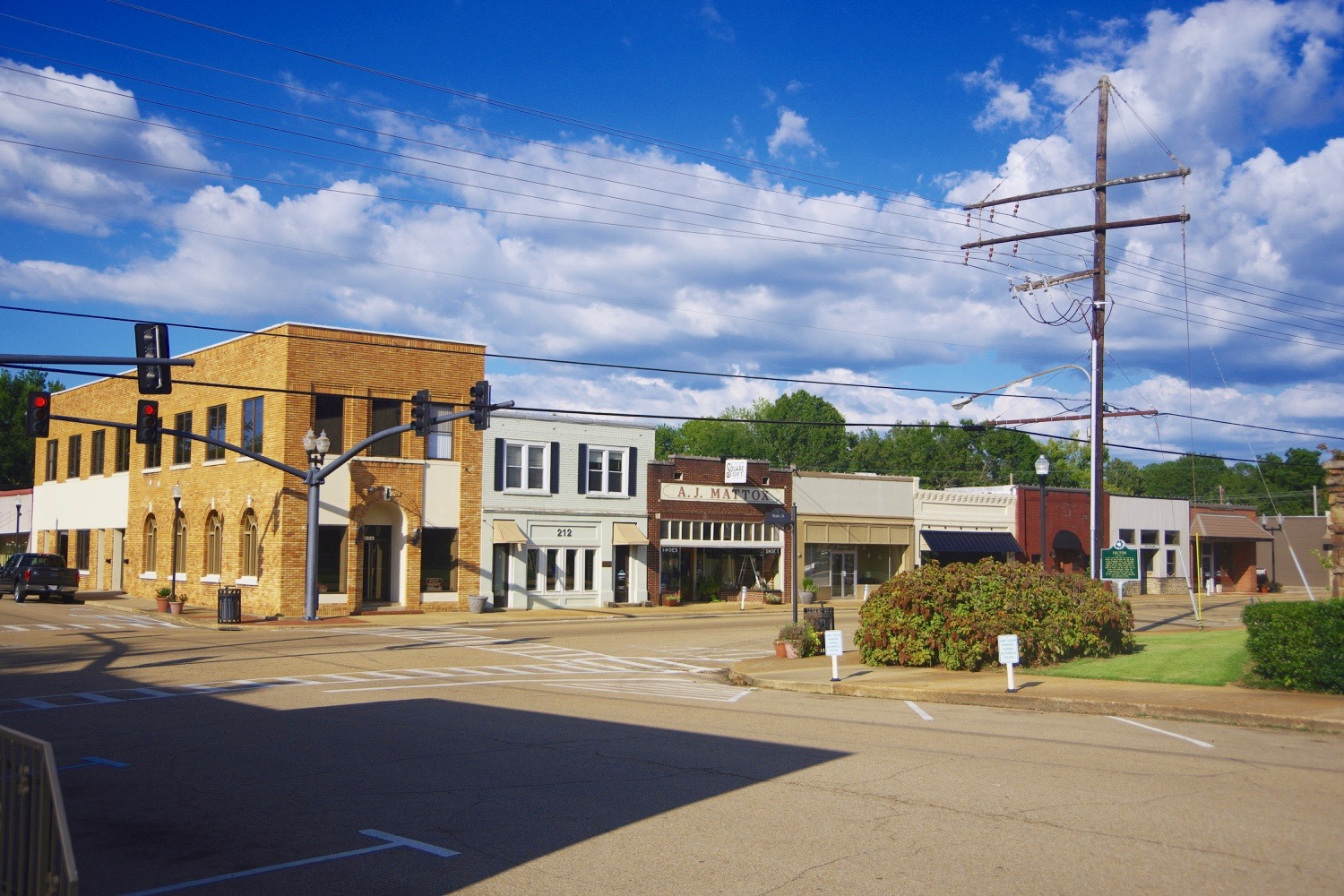 Buildings along Main Street on the courthouse square in Fulton, Mississippi, United States.